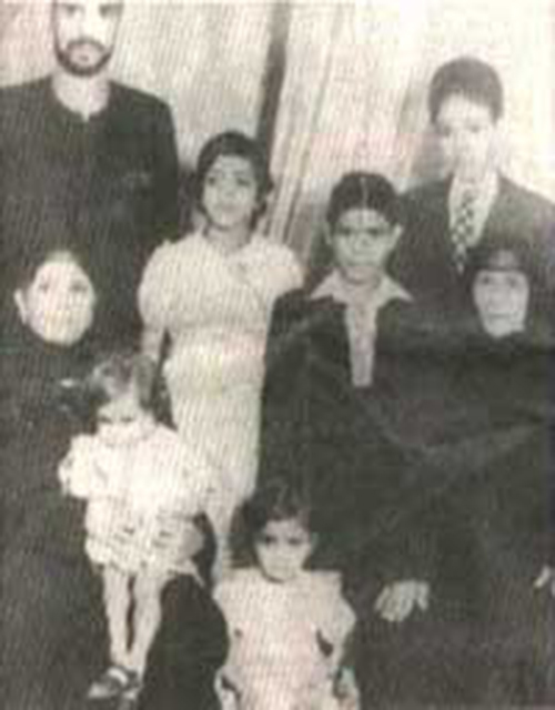 Elsharawy family